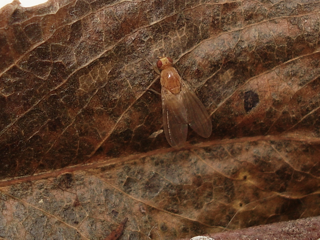 Sapromyzosoma laevatrispina